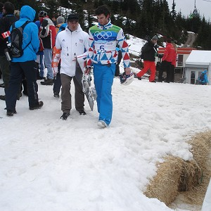 Snowboard cross athlete Pierre Vaultier of France walks next to hay bales covered partially with snow at Cypress Mountain during the 2010 Winter Olympics.